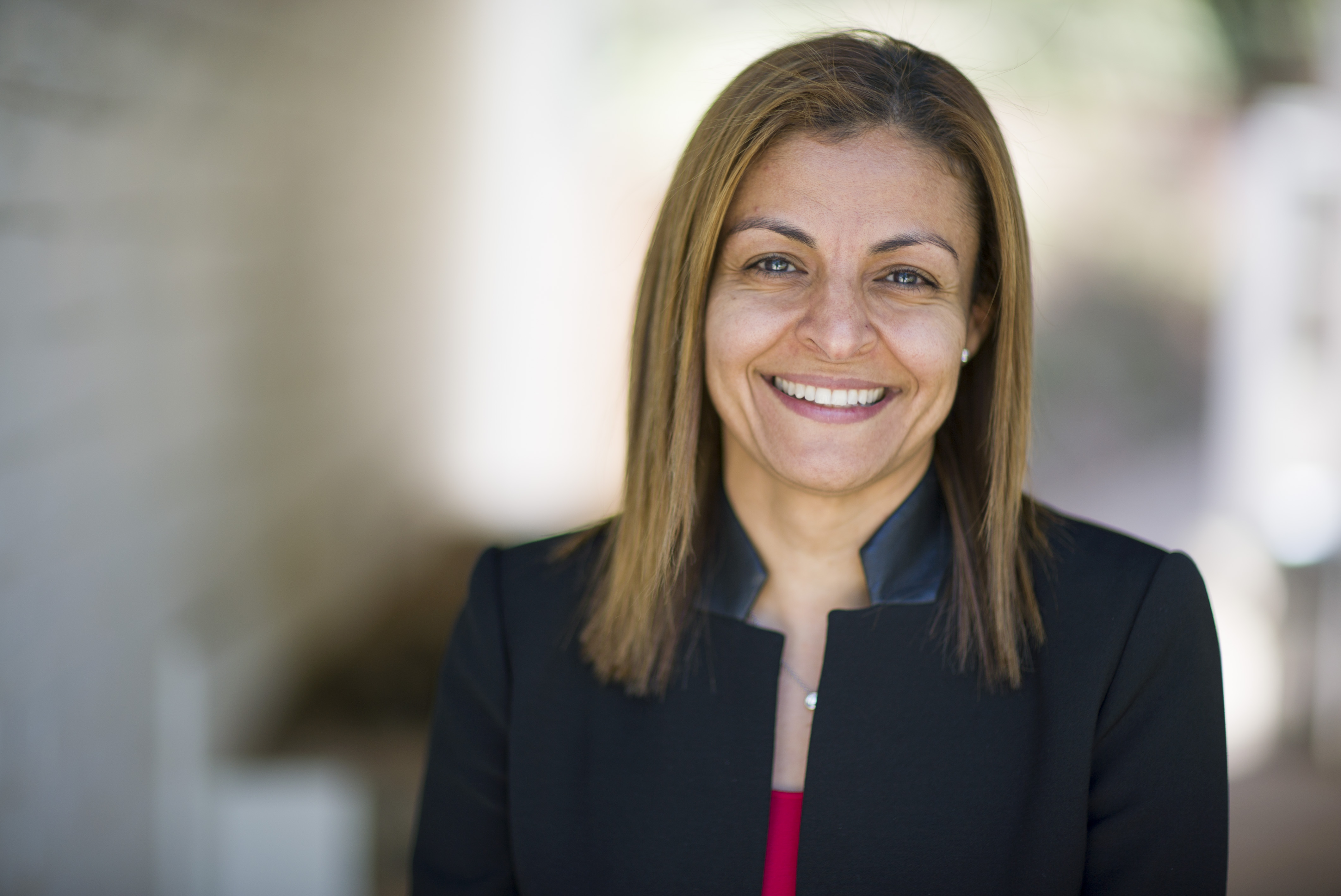 Maryana Iskander is Chief Executive Officer of Harambee Youth Employment Accelerator and brings a track record of scaling organisations through partnership models, data-driven delivery, talent management and technology innovation. Previously, she served as Chief Operating Officer of Planned Parenthood Federation of America, a US$1 billion organisation that is America’s largest provider of women’s reproductive healthcare and she currently sits on the board of directors. She has been an associate at global business consultancy McKinsey Co., a strategy consultant for W.L. Gore & Associates, and a law clerk at Cravath, Swaine & Moore in New York, and Vinson & Elkins in Houston. Maryana also served as Adviser to the President of Rice University and as a law clerk on the United States Court of Appeals for the Seventh Circuit. She earned a B.A. magna cum laude from Rice University, an M.Sc. from Oxford University as a Rhodes Scholar, and a J.D. from Yale Law School. She is a Henry Crown Fellow and a member of the Aspen Global Leadership Network.